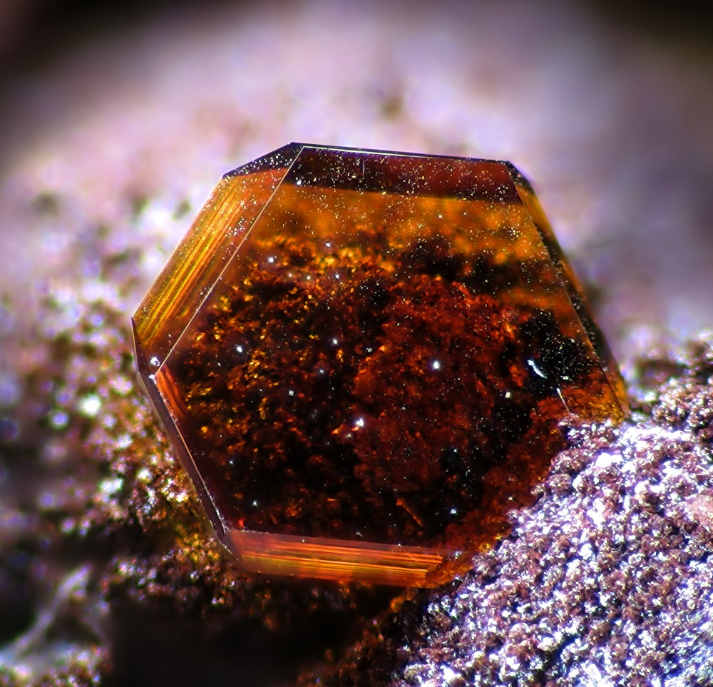 Jarosite Locality: Jaroso Ravine, Sierra Almagrera, Cuevas de Almanzora, Almería, Andalusia, Spain Picture width 2 mm. Collection and photograph Christian Rewitzer